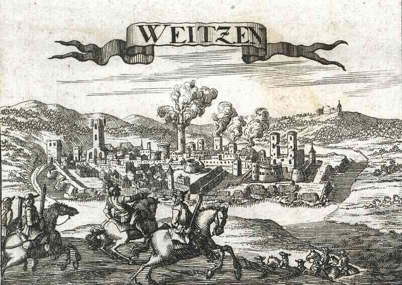 Vác